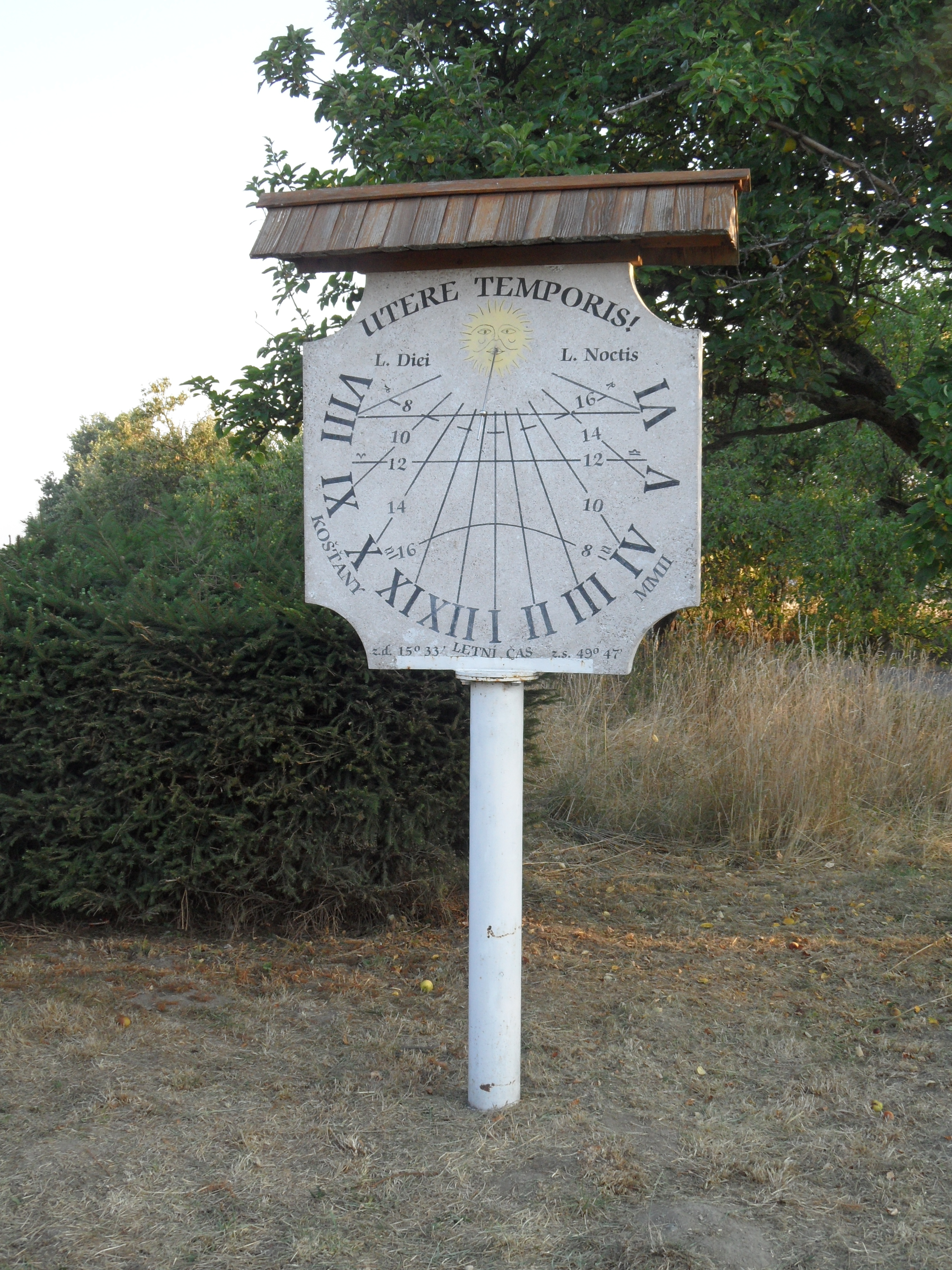 Košťany_(Vilémov) E. Sundial Clock. Havlíčkův Brod District, the Czech Republic.